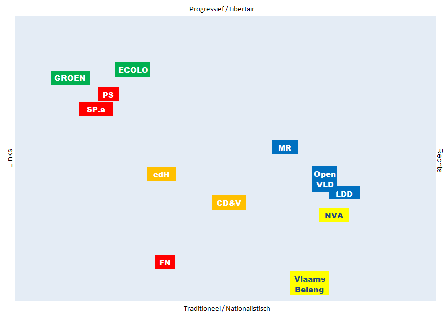 Political Spectrum Belgium 2010